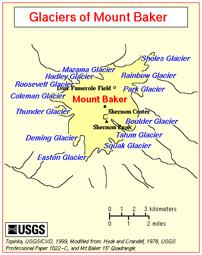 A map of the glaciers on Mount Baker in the Cascades Volcanic Arc in Washington. Source is [1] Picture by Hyde and Crandell, 1978, USGS